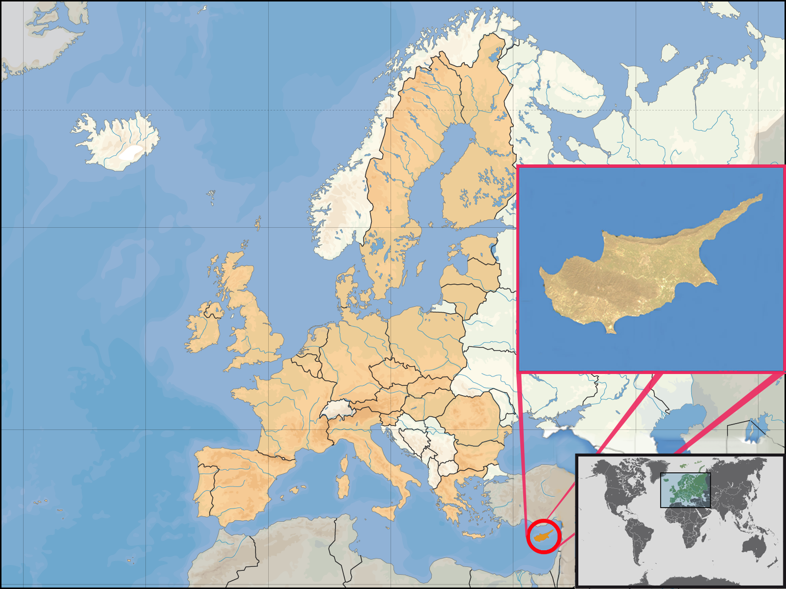 Location of Cyprus within Europe and the European Union on the 1st of January 2007.